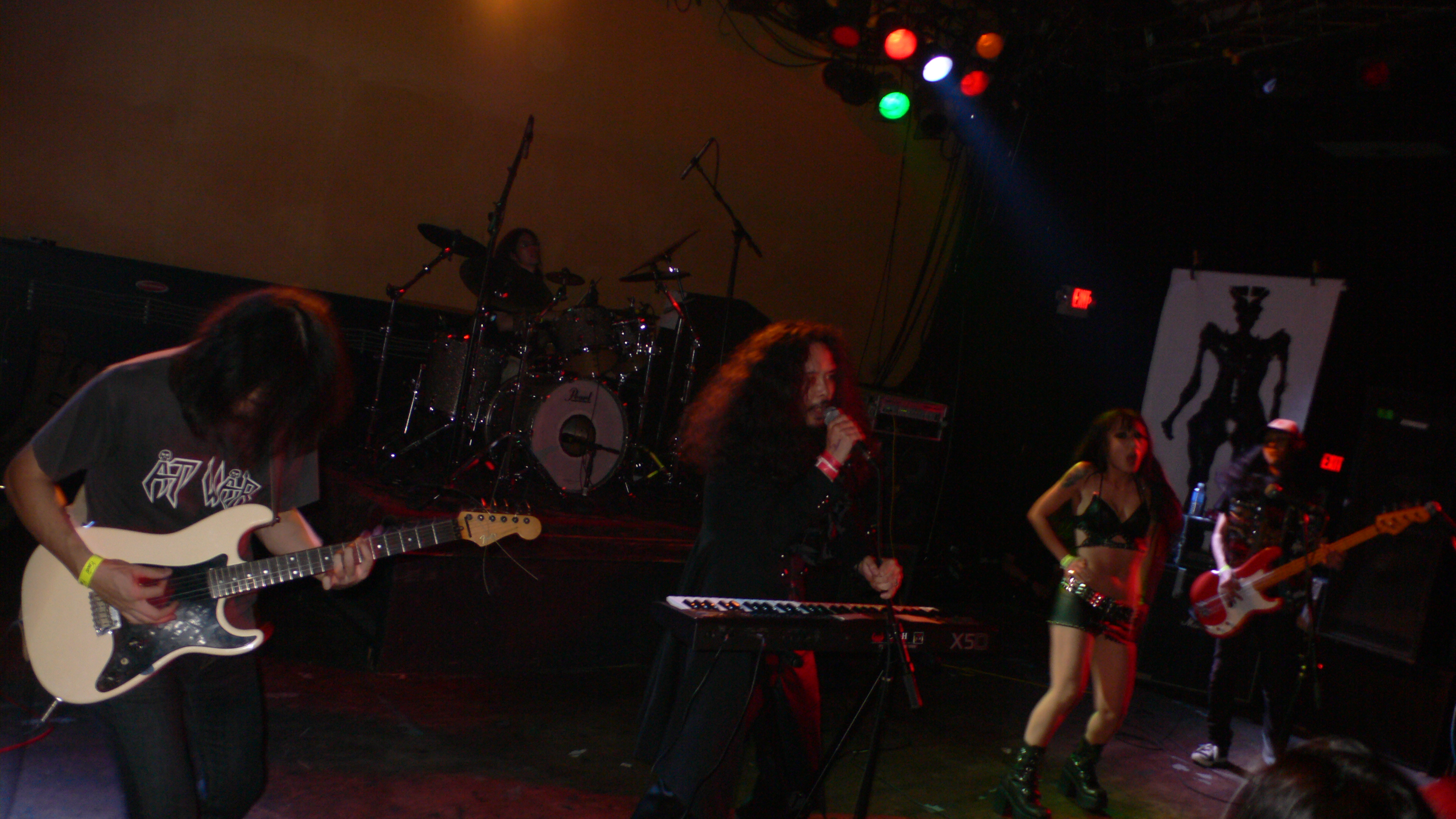 Japanese heavy metal band Sigh at Jaxx in West Springfield, Virginia (Washington DC area) on 15 September 2008.